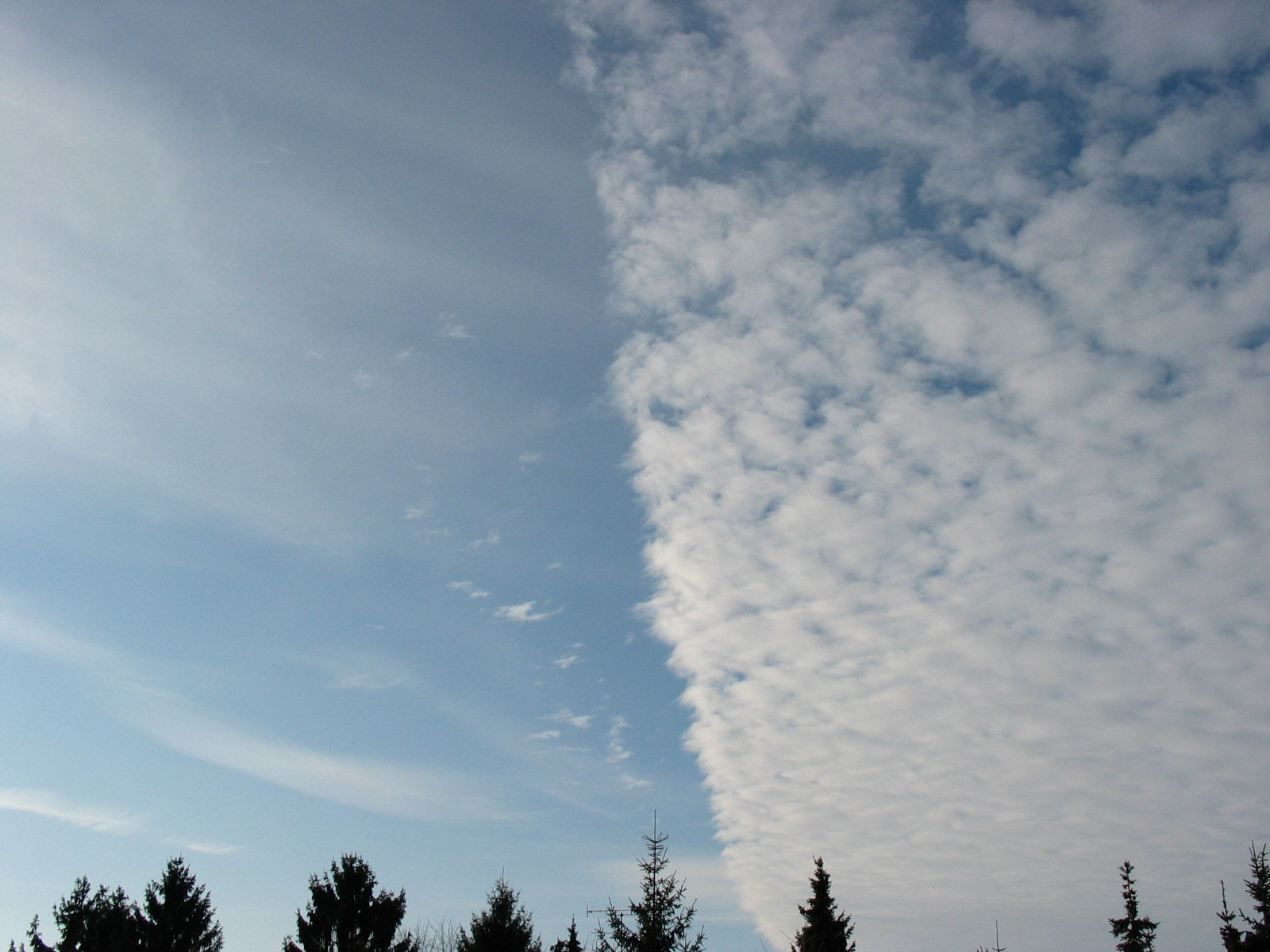 Cirrostratus and Altocumulus stratiformis perlucidus clouds.